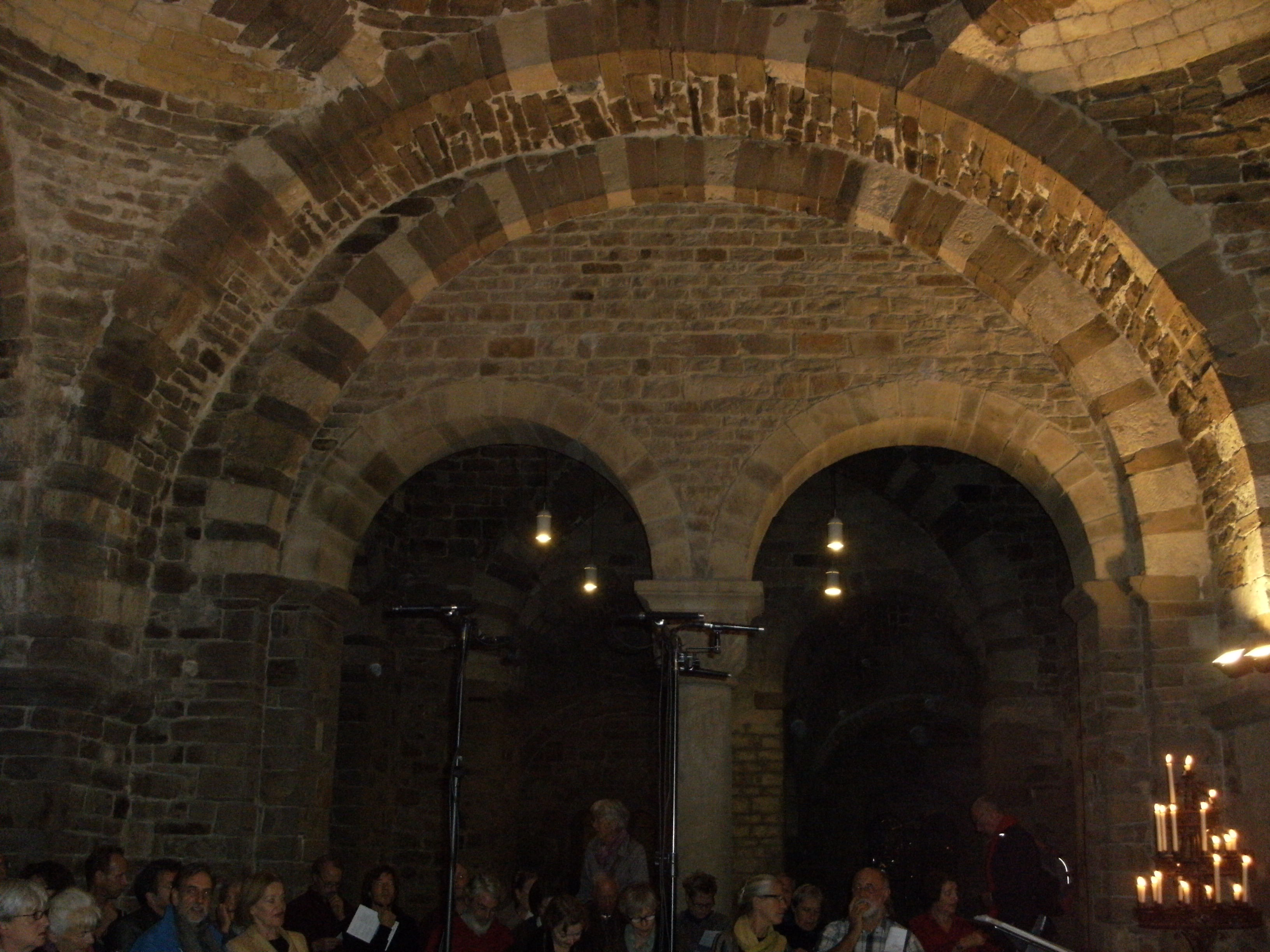 Keizerzaal, "Emperor's Hall", in the Basilica of St. Servatius, Maastricht, the Netherlands, during a concert in the Musica Sacra festival..